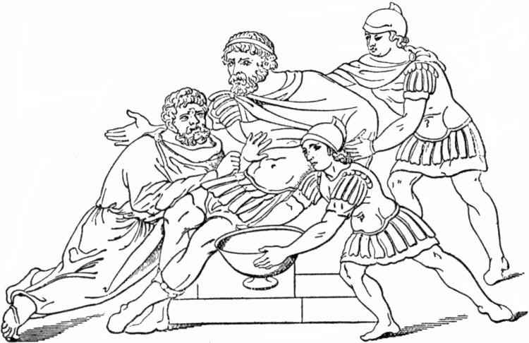 Machaon (Son of Asklepios), The first Greek military surgeon, attending to the wounded Menelaus.